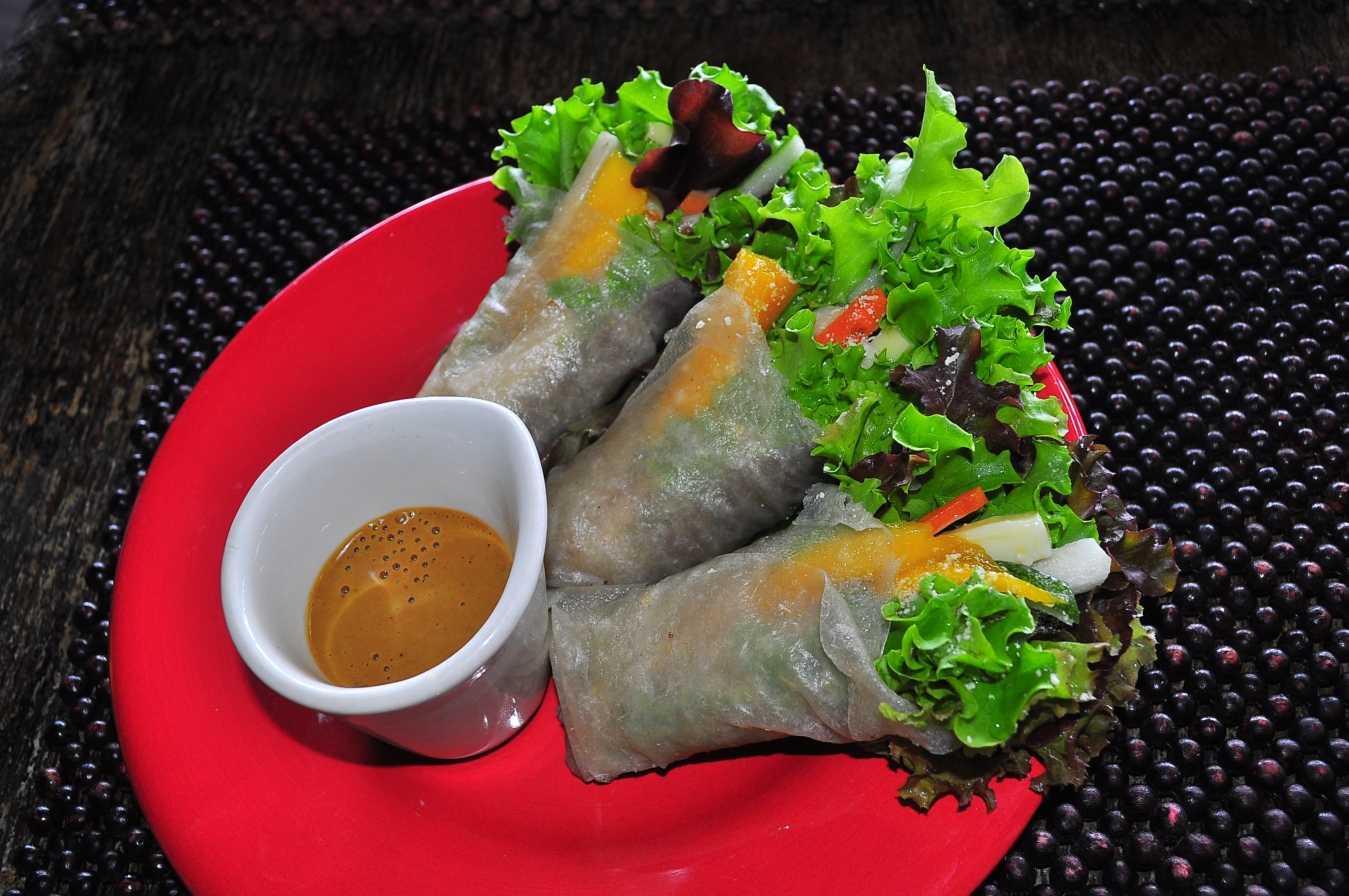 Lettuce Salad at Bohol Bee Farm with peanut sauce.